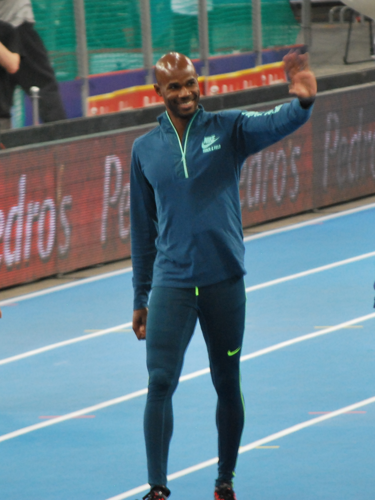 Pedros Cup 2015 Łódź, Kim Collins, sprinter from St. Kitts & Nevis